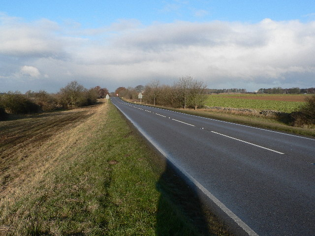 Ermine Street Roman Road. Looking N towards Byard's Leap